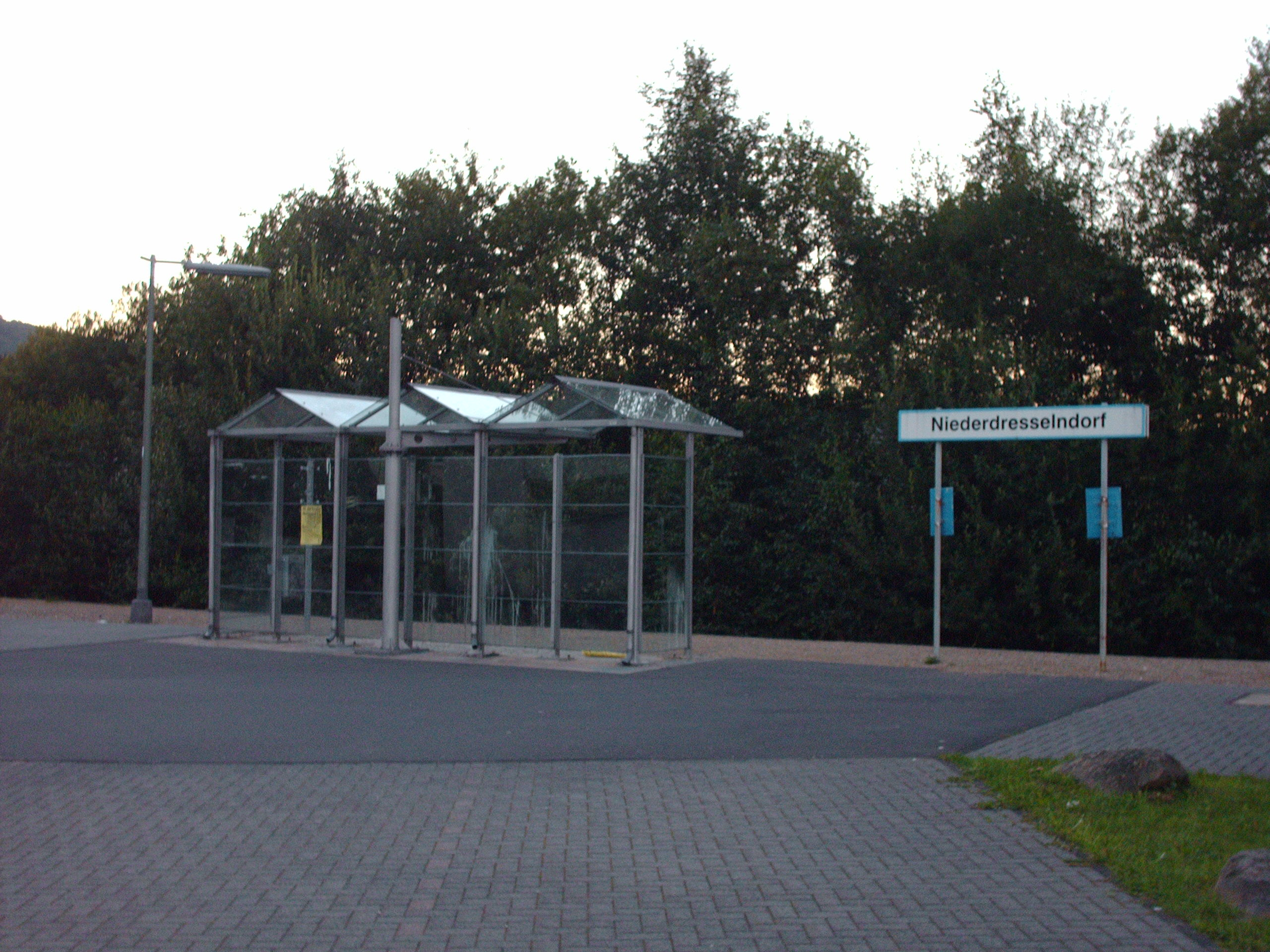 Niederdresselndorf station, Burbach, Germany check usage